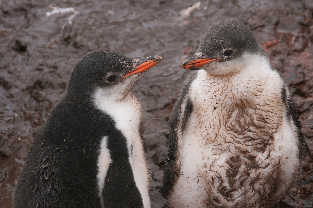 Gentoo penguin chicks Pygoscelis papua on Ardley Island, Antarctica